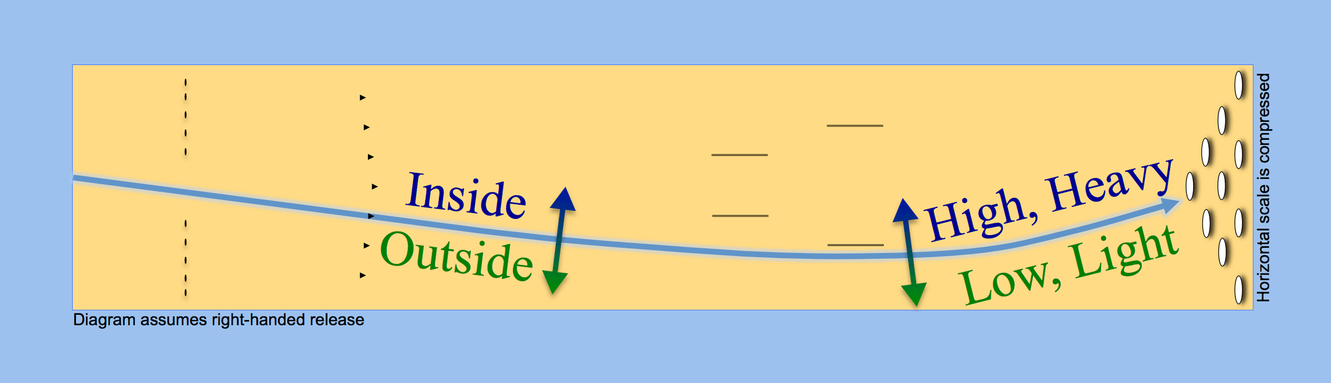 Diagram illustrating terminology for bowling ball paths: inside, outside, low, high, light, heavy.